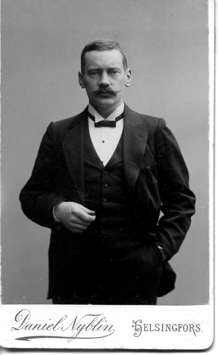 Adolf Paul as a young man in Helsinki, Finland in the 1880s.